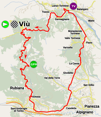 Map of stage 2 from Giro donne 2019